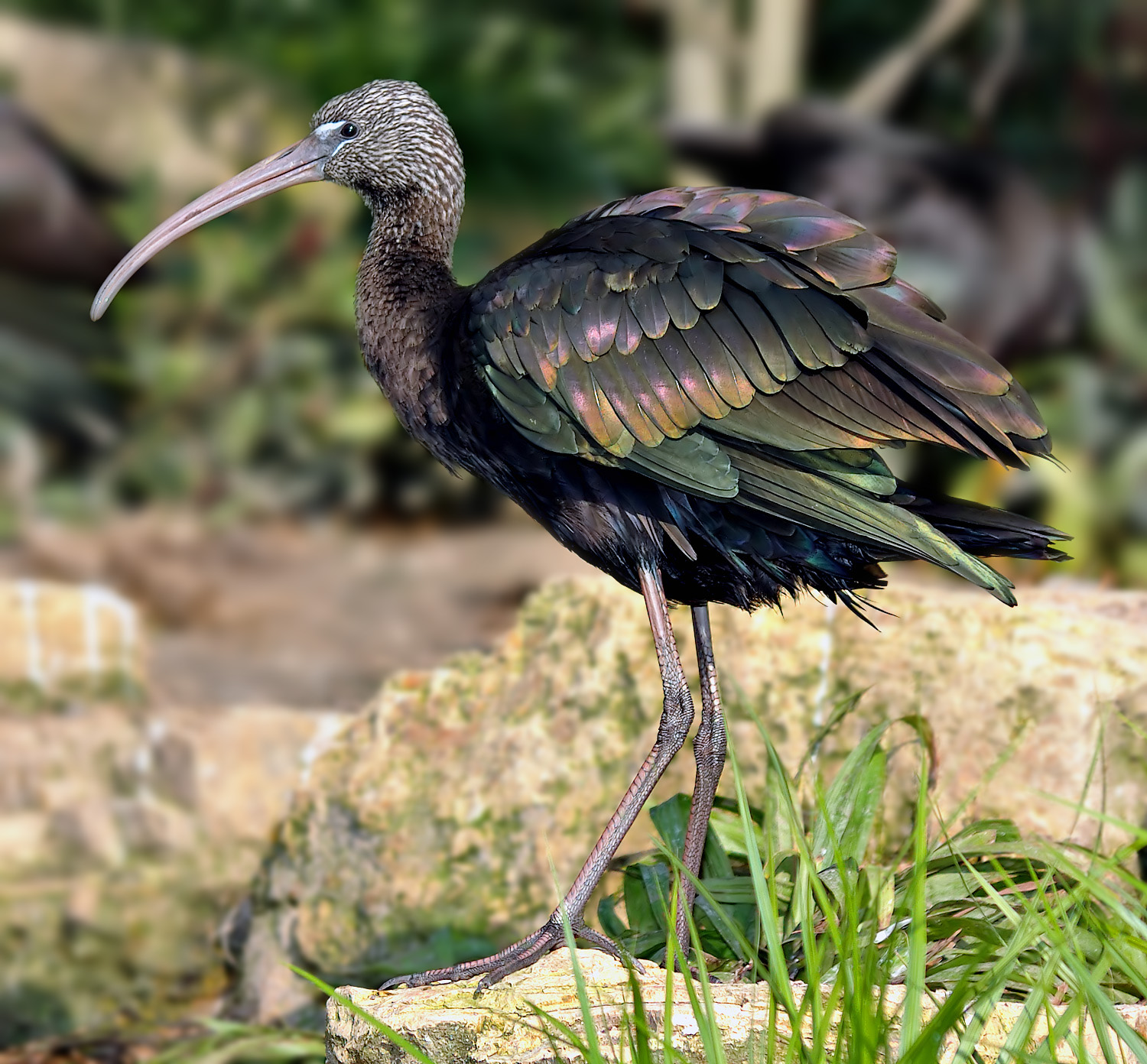 Captive Glossy Ibis Plegadis falcinellus, Leipzig Zoo.